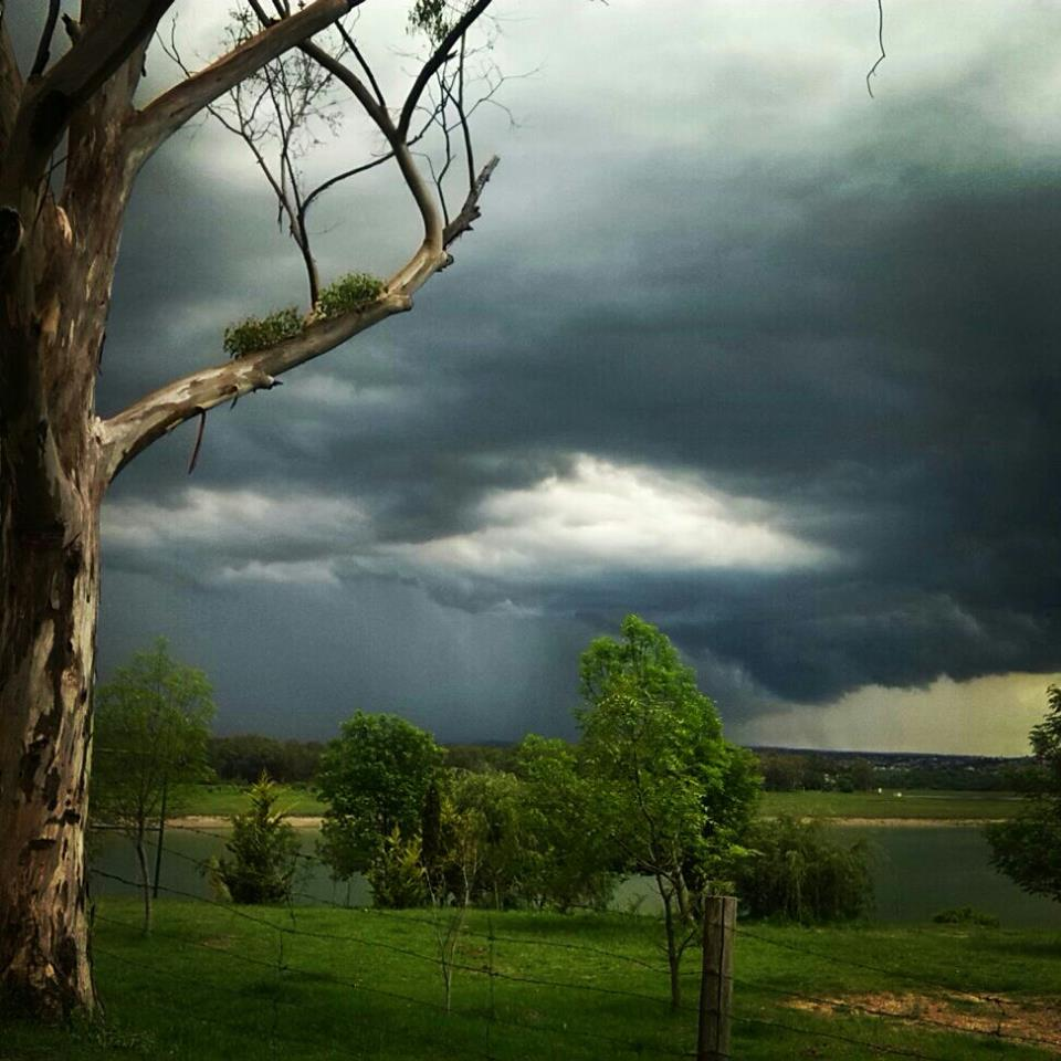 Mexican lake